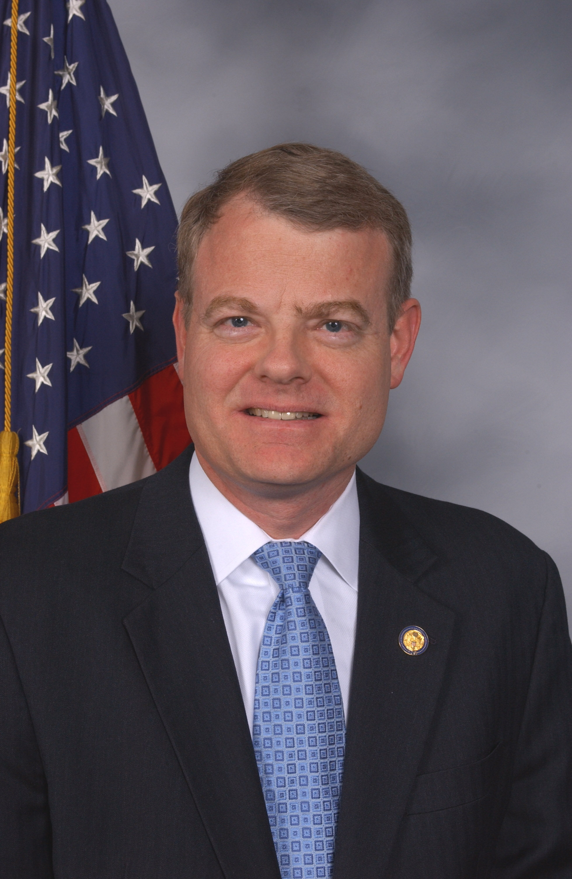 Mike McIntyre, member of the United States House of Representatives.